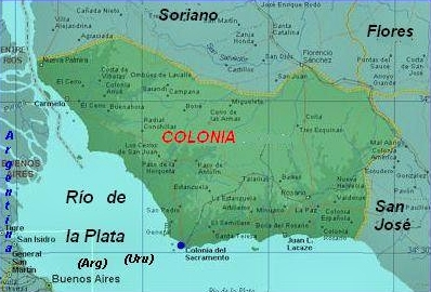 This image has been widely modified, adapted, redrawn and painted by me, the author. I release it under public domain.